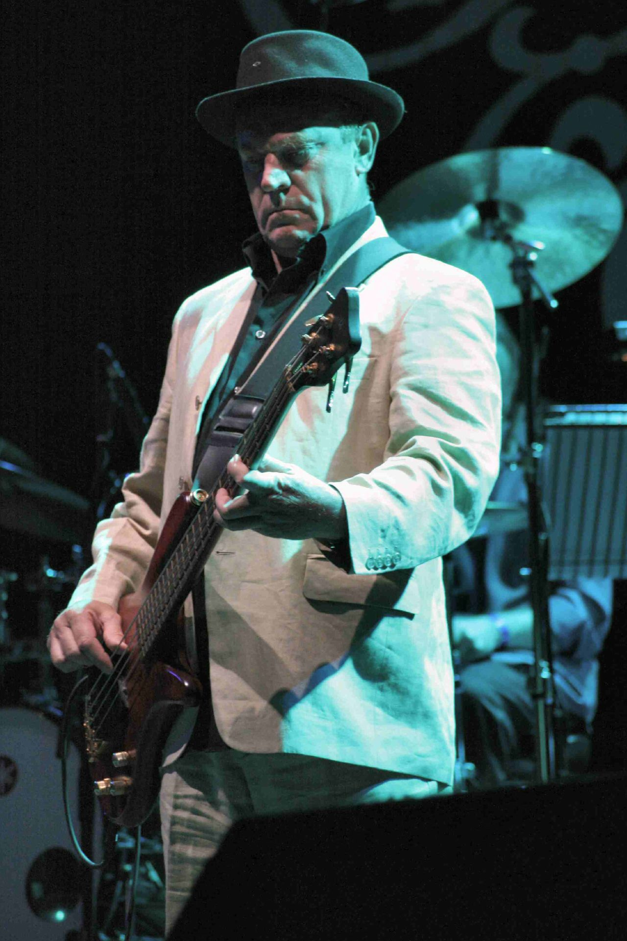 Fairport Convention Liege & Lief 40th Anniversary Concert -- Ashley Hutchings